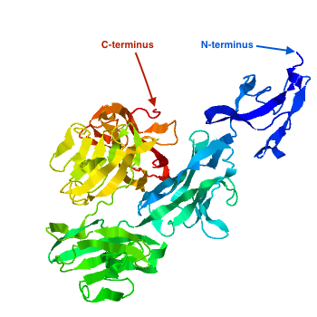 i-TASSER of LENG9